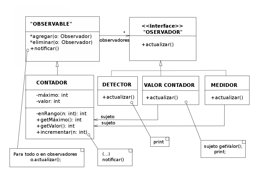 Ejemplo de implementación patrón observador diagrama de clases